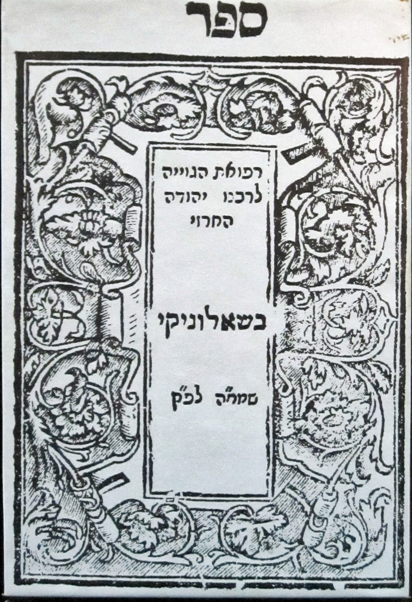 Sefer Refu' at ha Geviyah, Judah Al Harizi, Salonica, 1593